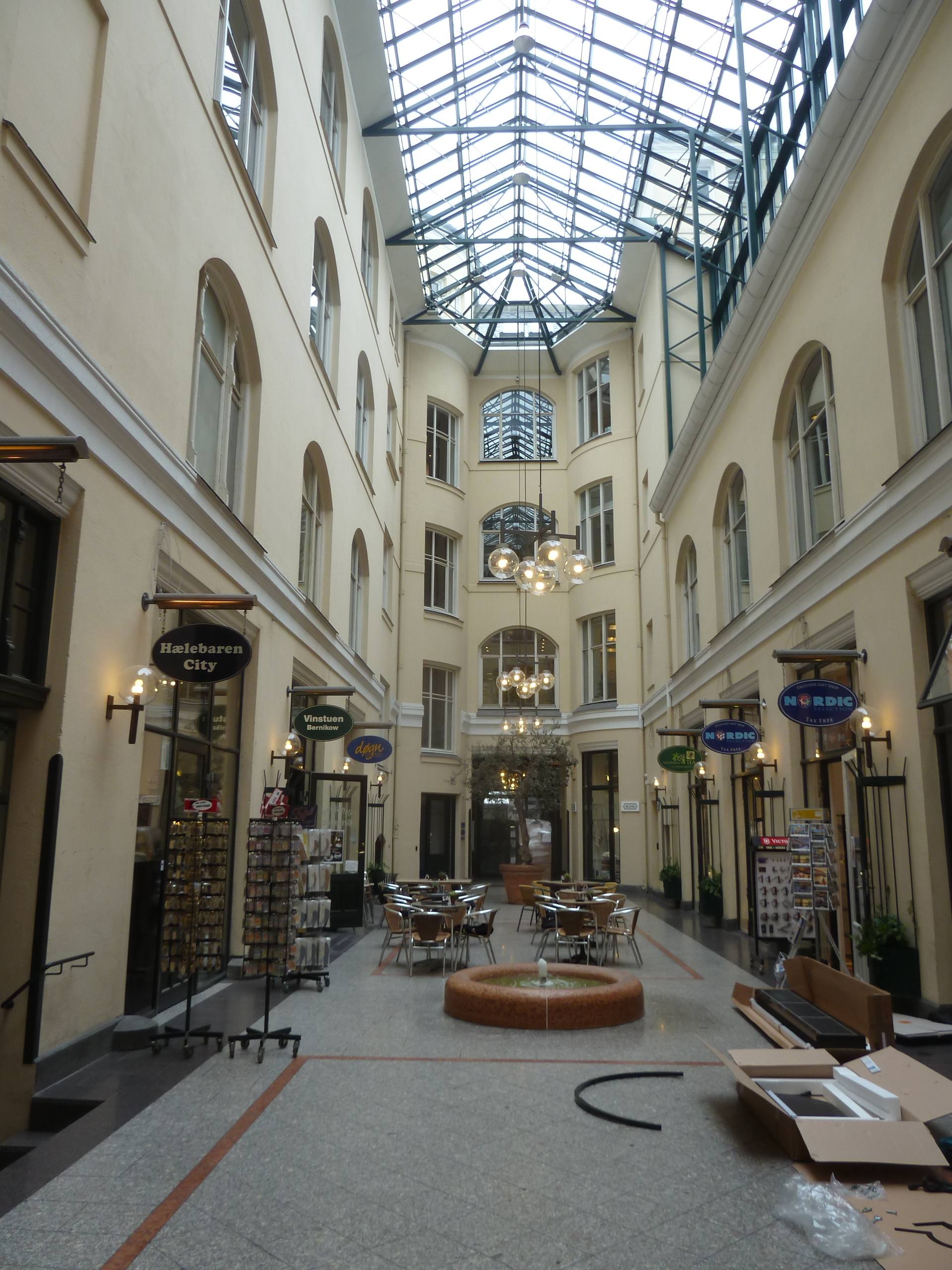 The indoor shopping arcade in Bernikow Gården in Indre By in Copenhagen.